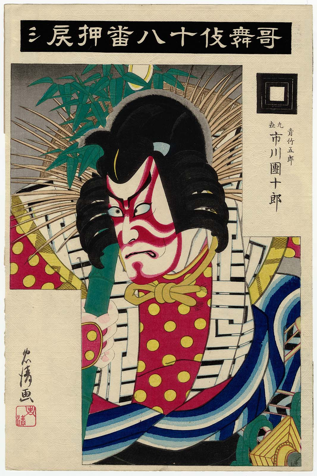 Part of the series The Eighteen Great Kabuki Plays